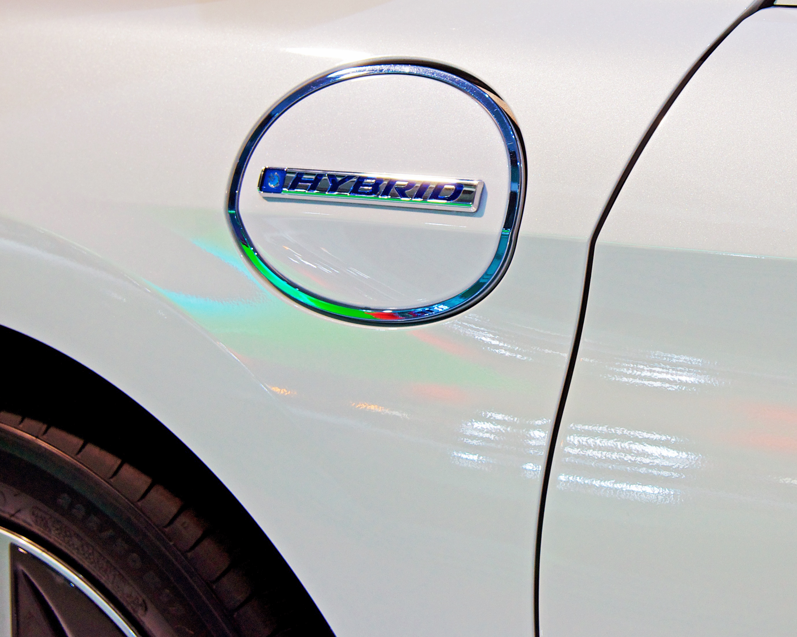 Charging port of the 2014 Honda Accord Plug-in Hybrid. 2012 Los Angeles Auto Show